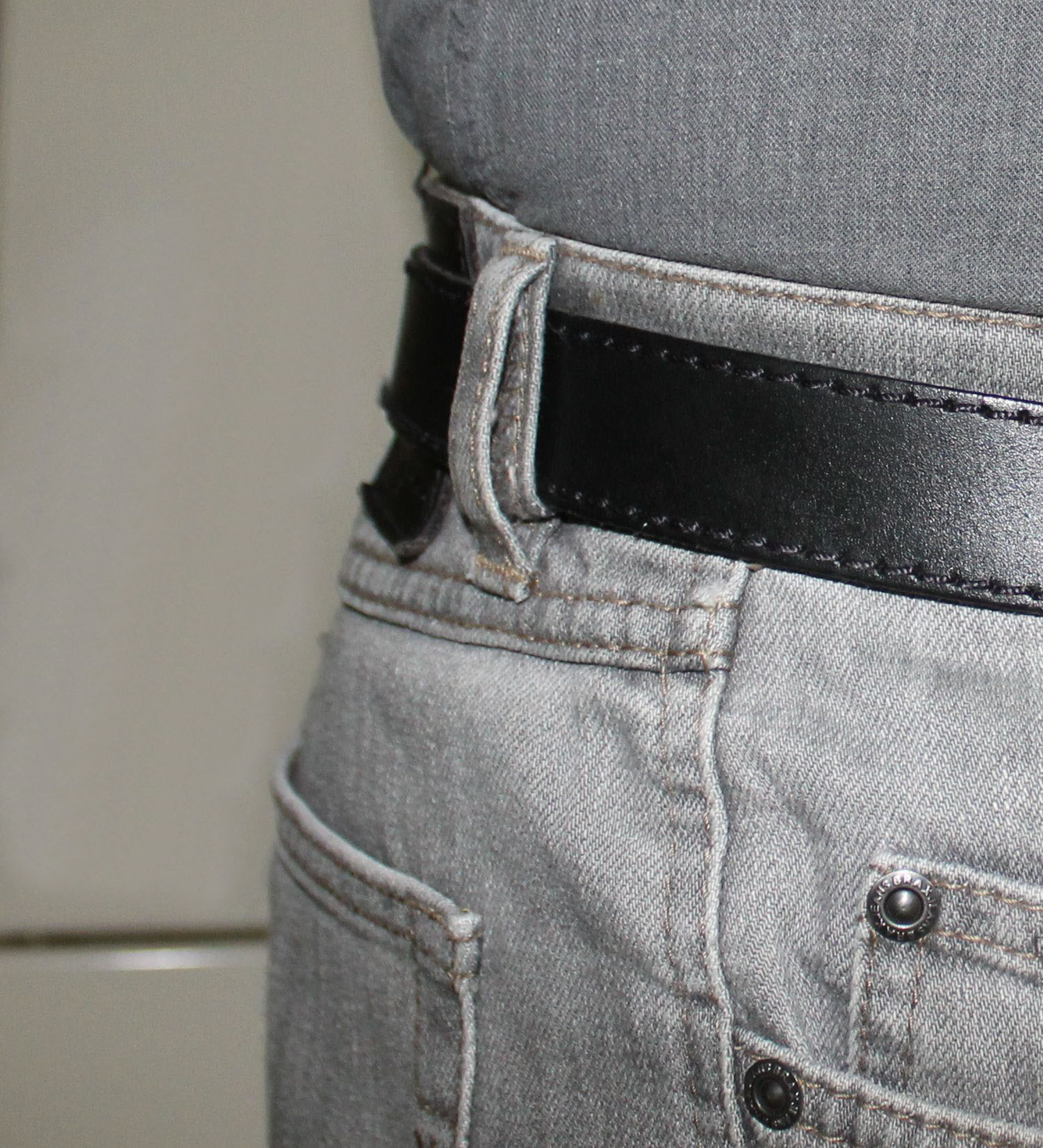 Belt loop - narrow belt